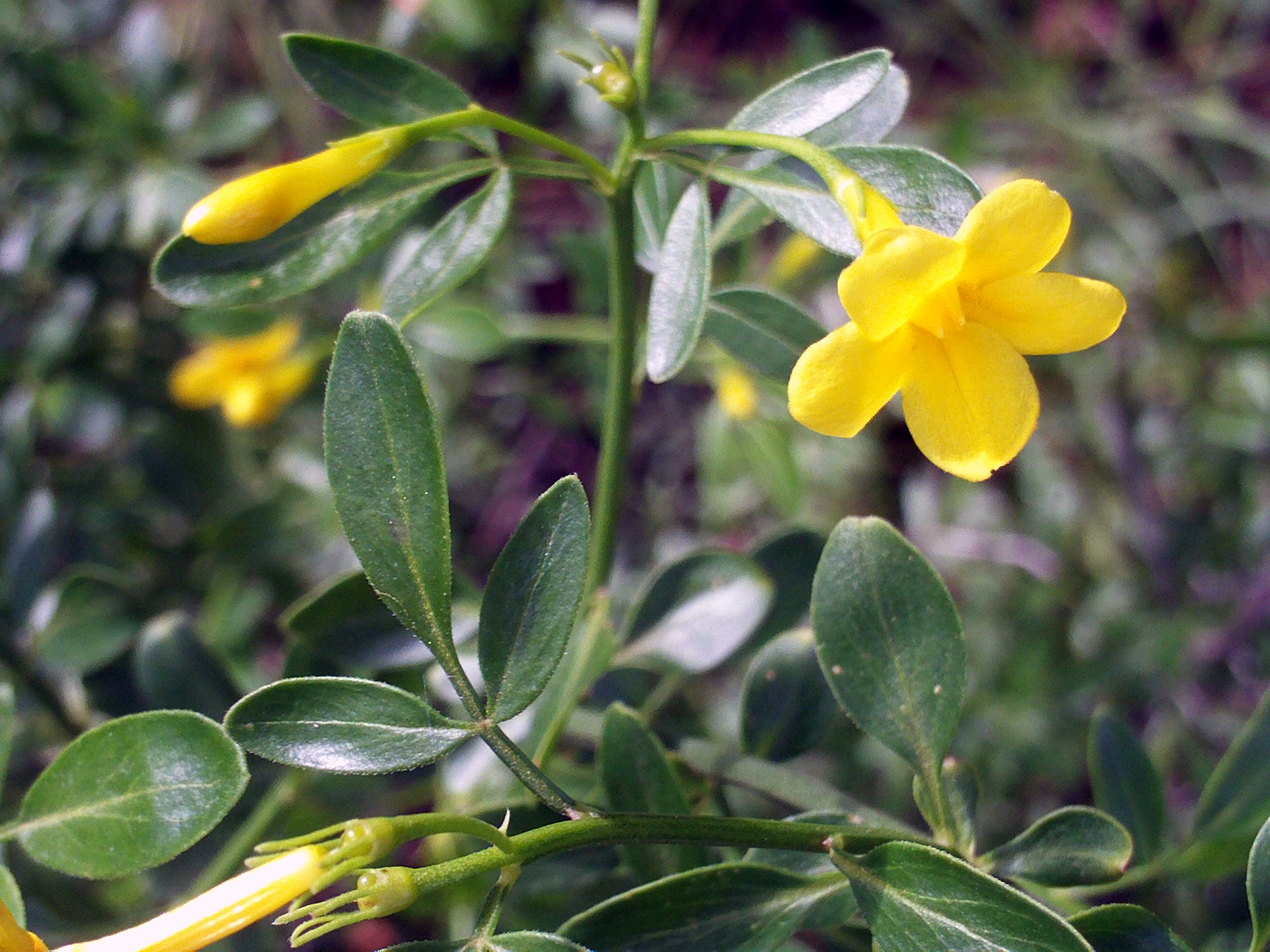 Jasminum fruticans flowers close up, Sierra Madrona, Spain